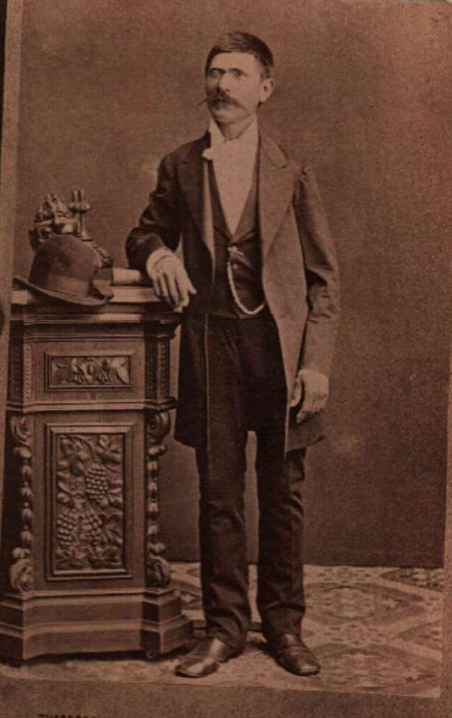 Branislav Veleshki (1834-1919)